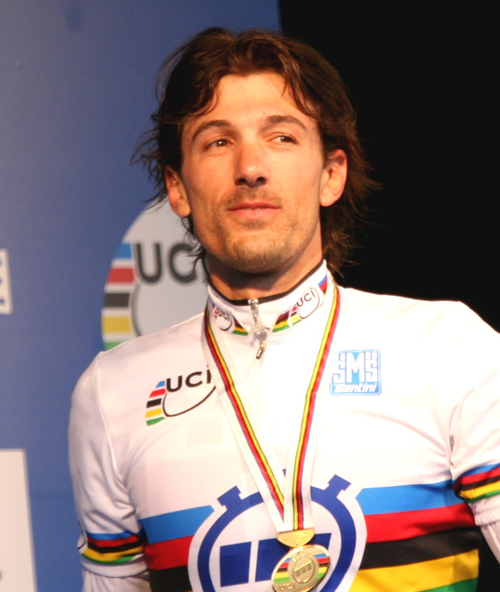 World time trial champion Fabian Cancellara wearing the rainbow jersey. UCI World Champions 2010, Geelong, Australia